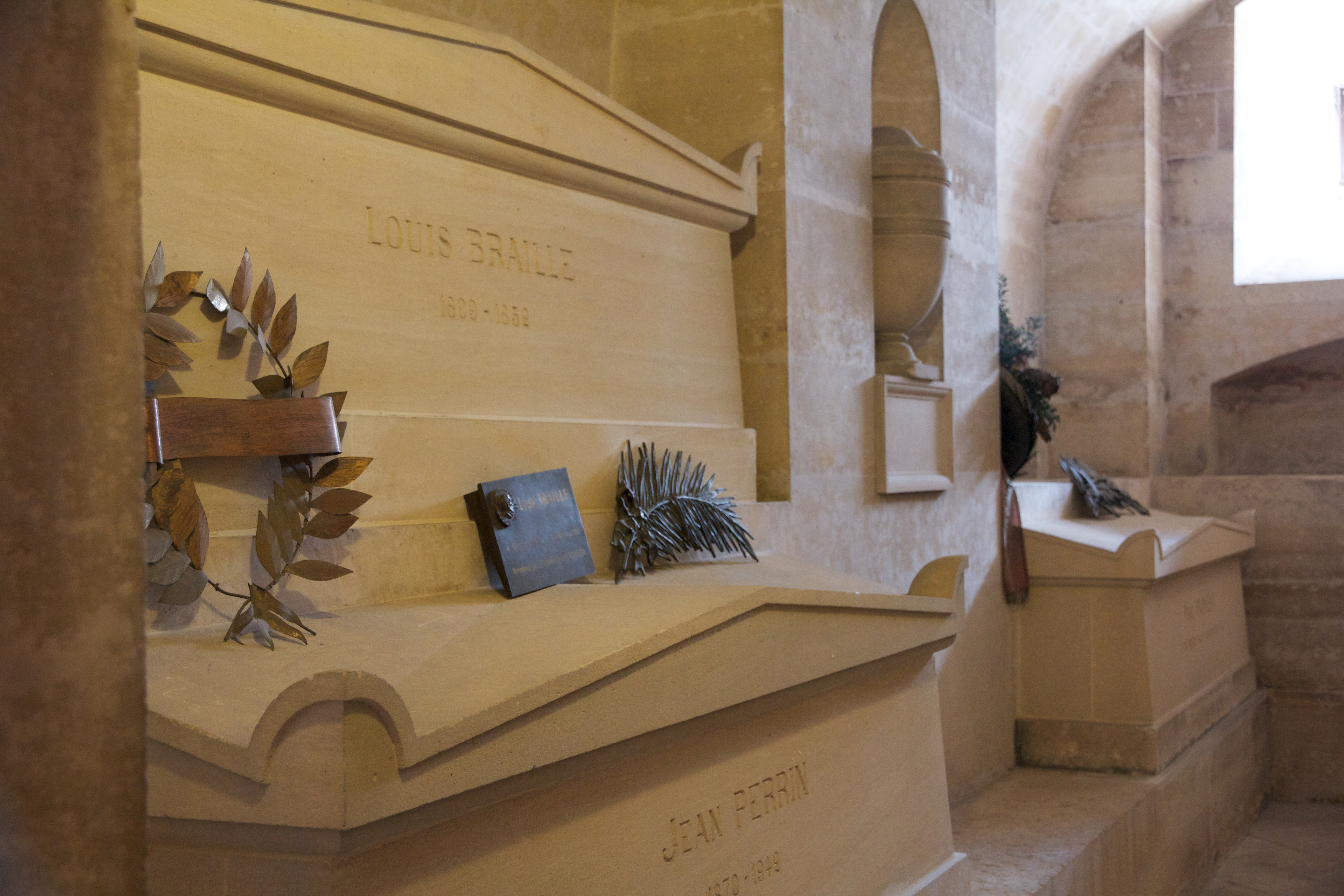 Interior of Panthéon de Paris.